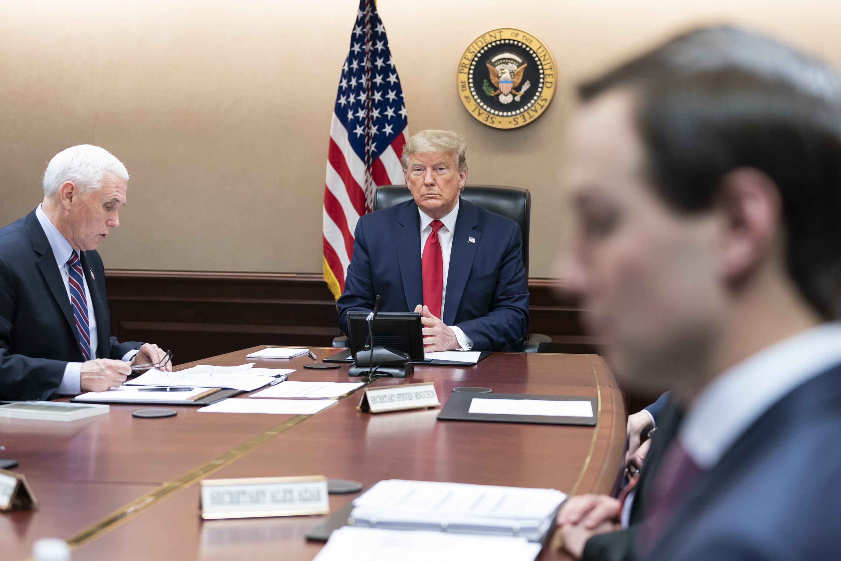 Secretary of the Treasury Steven Mnuchin, joined by President Donald J. Trump and Vice President Mike Pence, addresses his remarks on aspects of the stimulus package currently before Congress, during the coronavirus (COVID-19) update briefing Wednesday, March 25, 2020, in the James S. Brady Press Briefing Room of the White House. (Official White House Photo by Andrea Hanks)